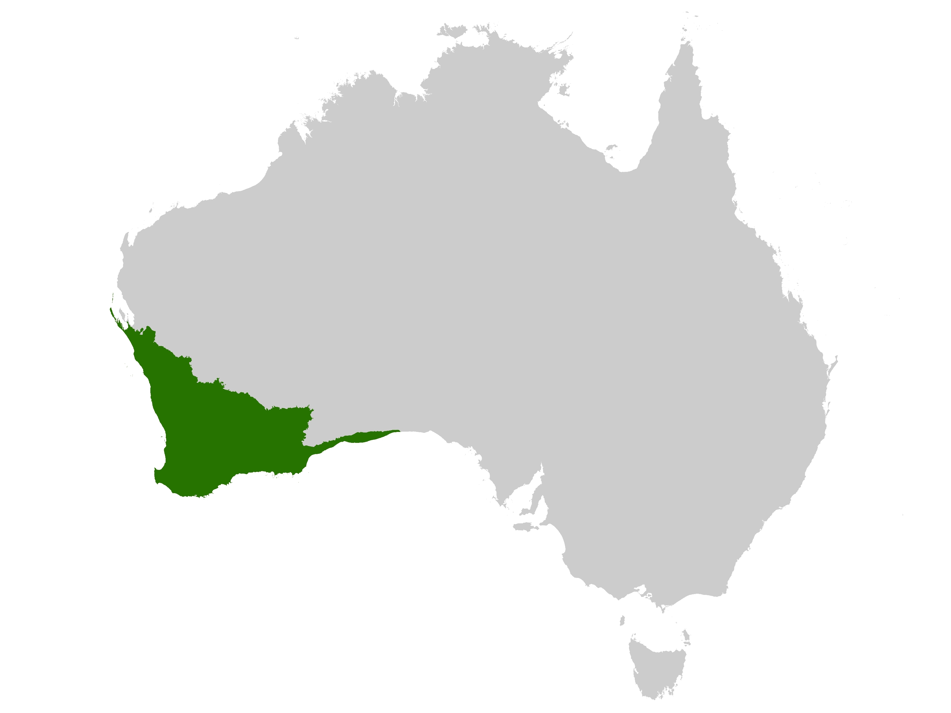 Mediterranean forests, woodlands, and scrub of South-West Australia